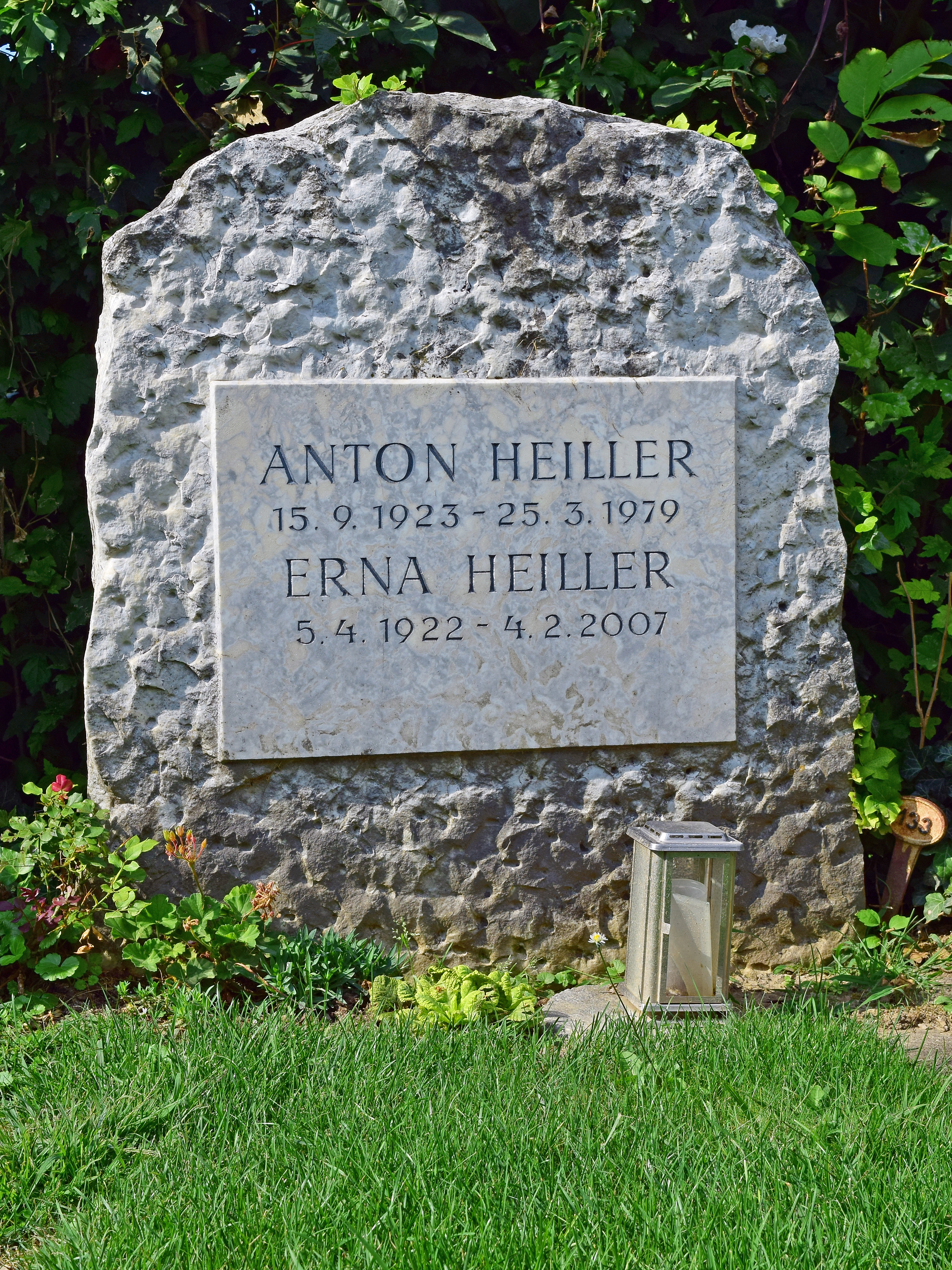 Grave of honor of the composer Anton Heiller at the Wiener Zentralfriedhof